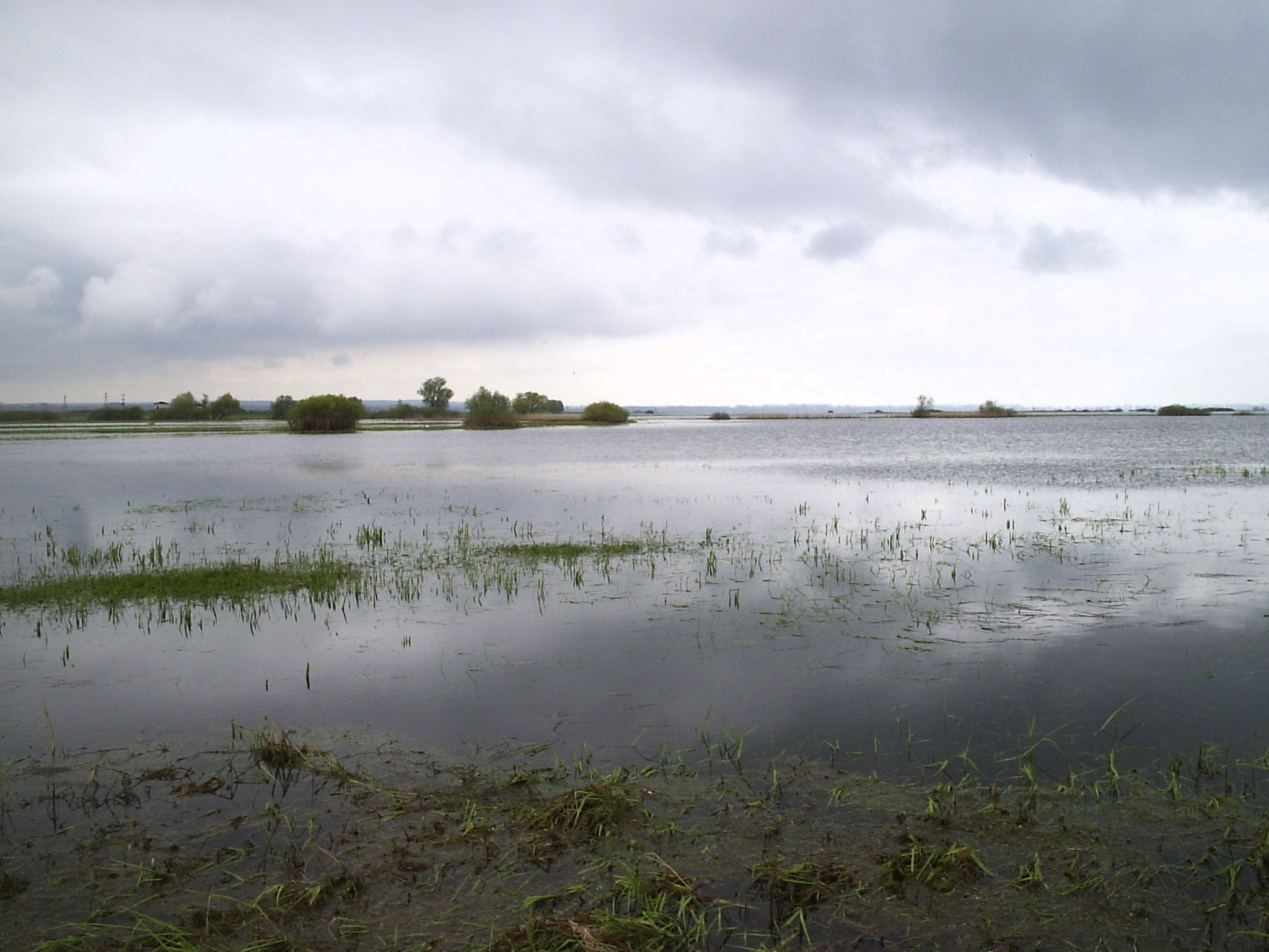 Ujście Warty National Park, Poland